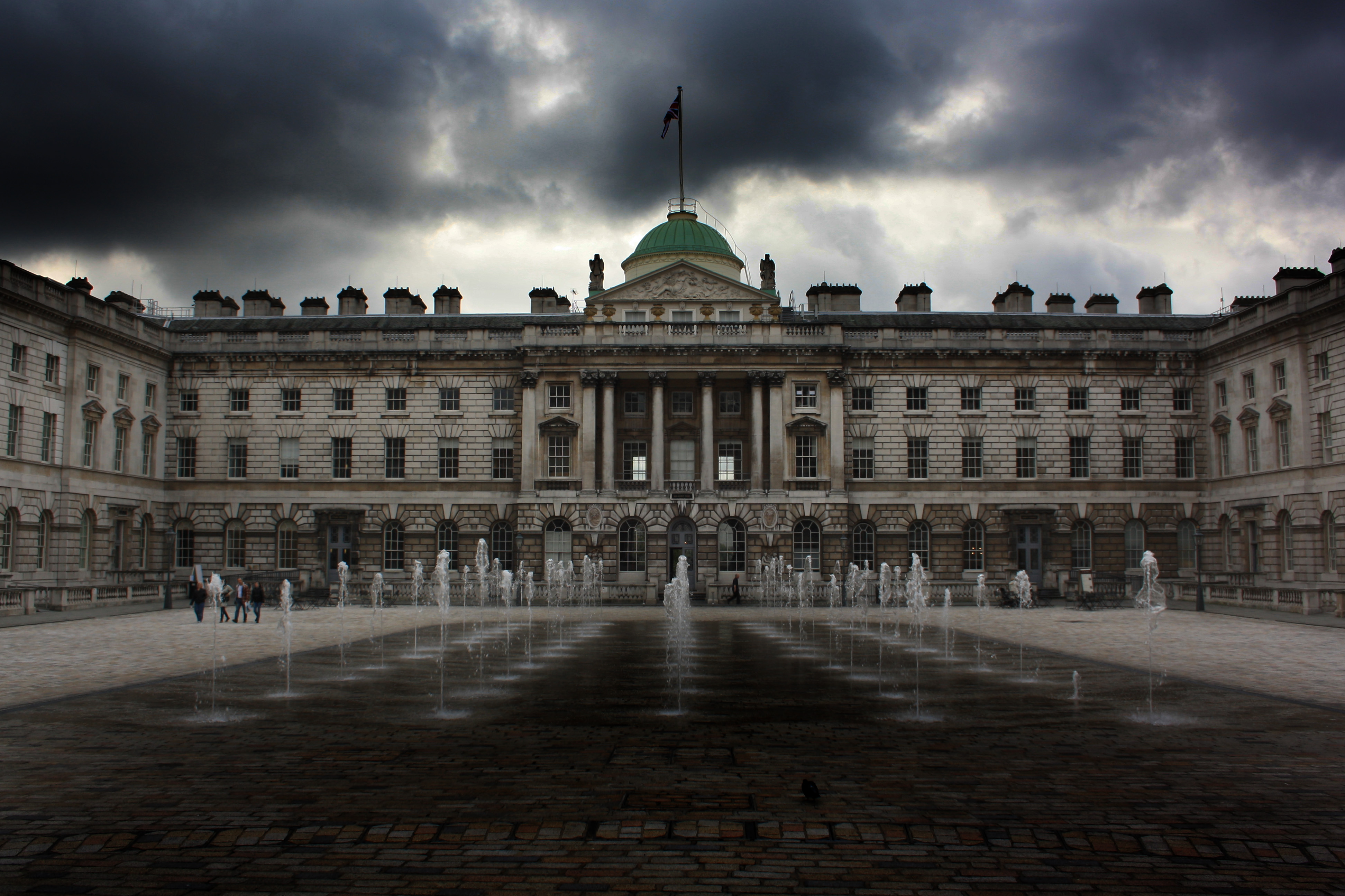 Somerset House courtyard